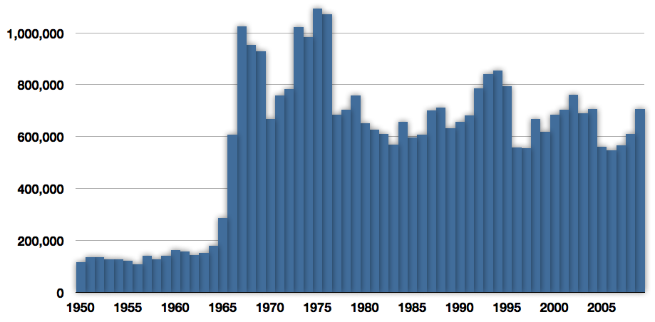 Fisheries recorded capture of Atlantic mackerel Scomber scombrus from 1950 to 2009. Data source FAO fisheries